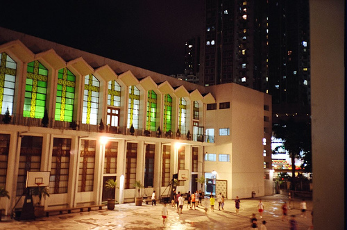 Ng Wah Catholic Seconday School Located in San Po Kong, Kowloon, Hong Kong. Taken by Wikimedia Commons user Simon Shek. Taken on 17 September 2005.